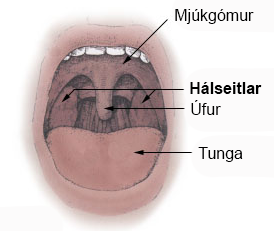 Derivative of File:Tonsils diagram.jpg. From the U.S. National Cancer Institute web site, released in the public domain in the U.S.